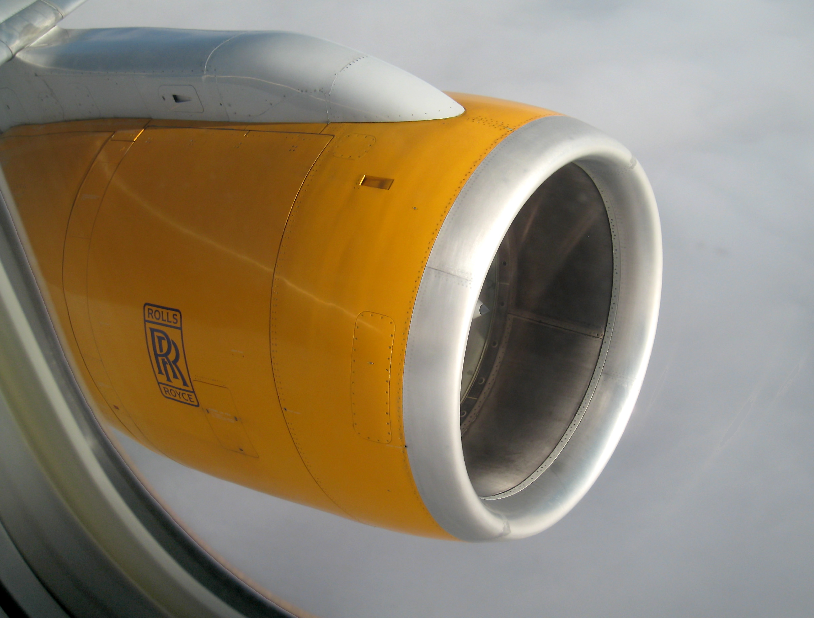 Boeing 757-300 with a Rolls Royce RB-211-535E4-B turbofan engine. Shot on a flight from Kevlavik (Iceland) to Copenhagen (Denmark) on April 26th 2007.